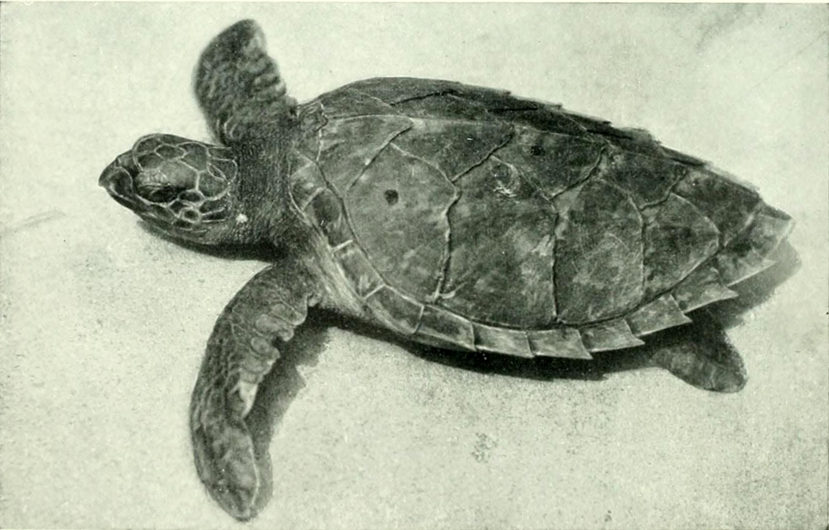 Eretmochelys imbricata